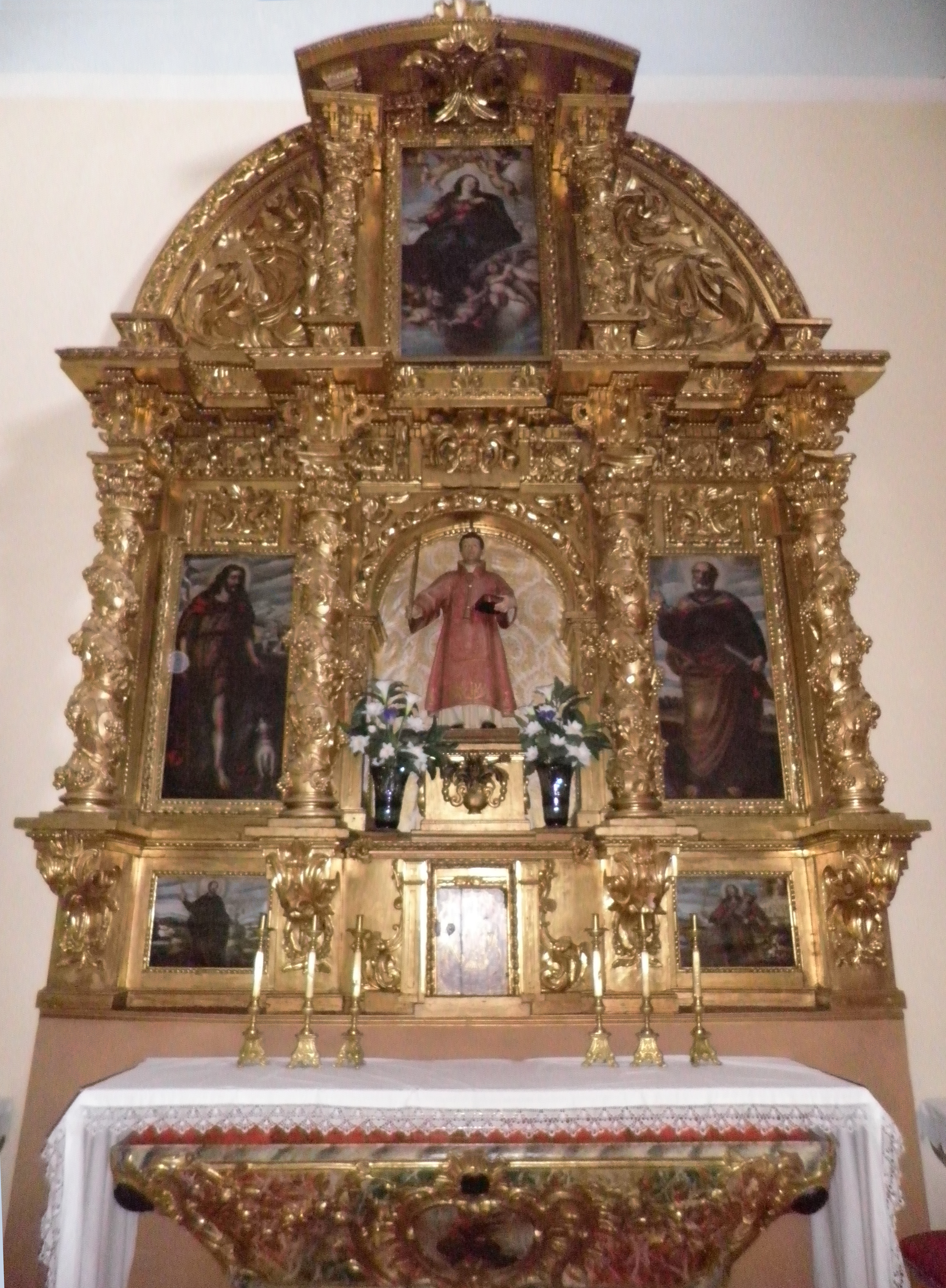 Altarpiece of Melque de Cercos church, in Segovia province, Spain.